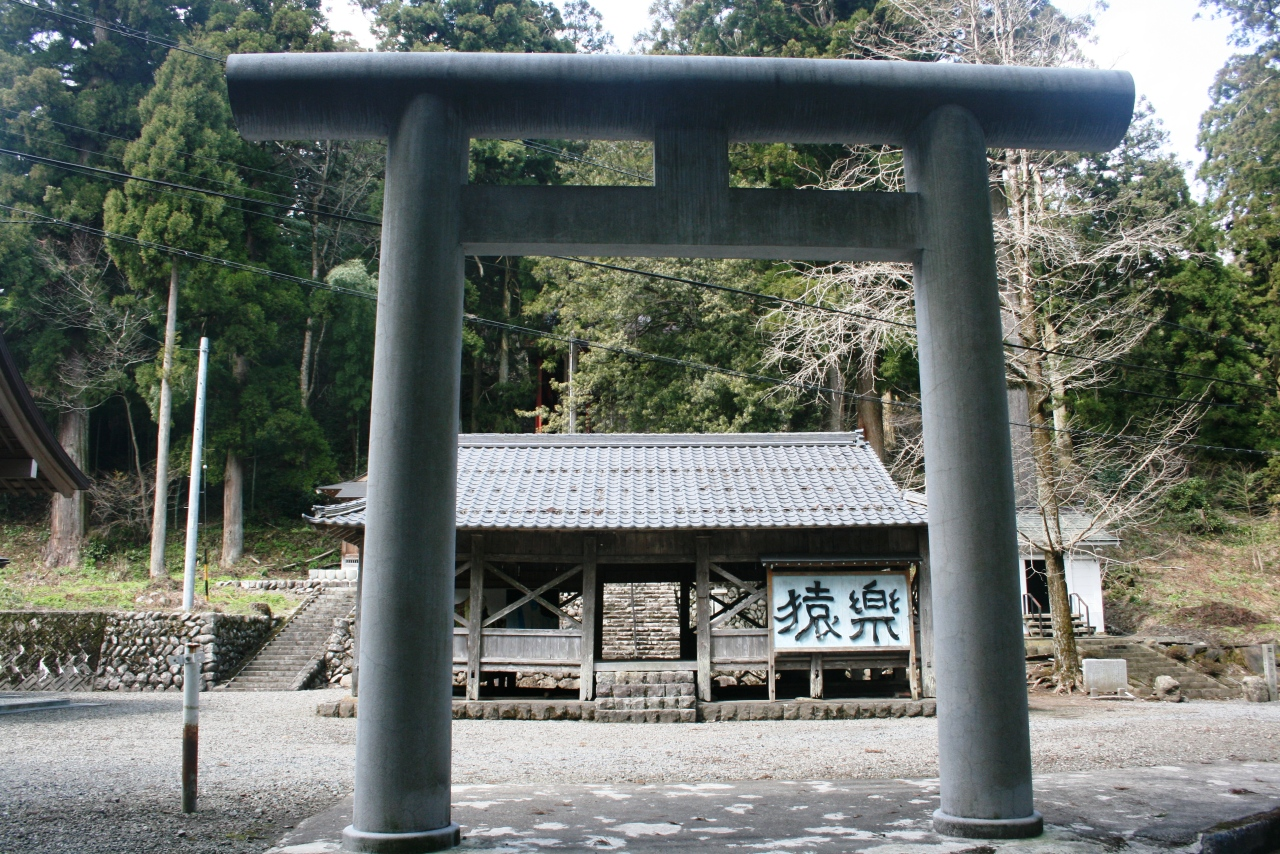 Shinto_shrine_Hakusan_in_Nougou